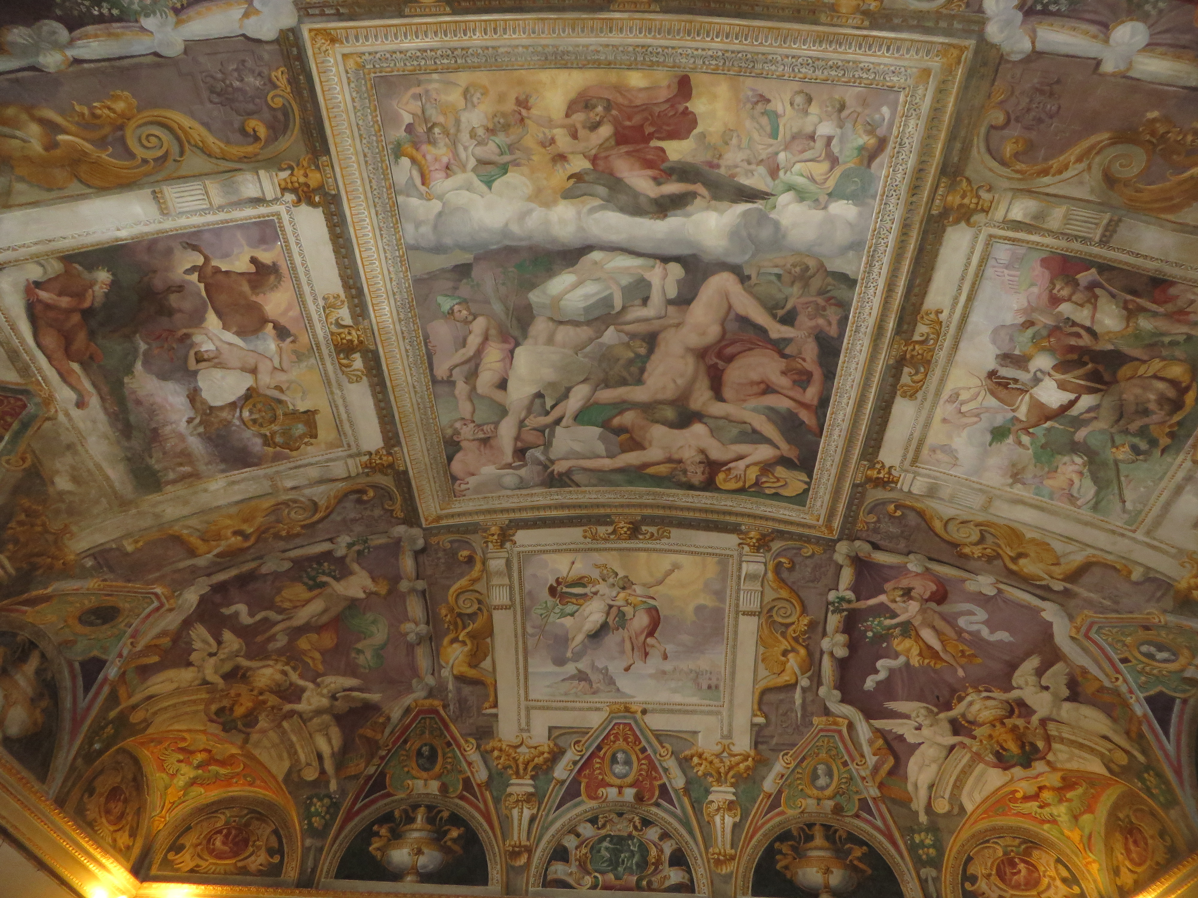 Rossi Castle San Secondo 9